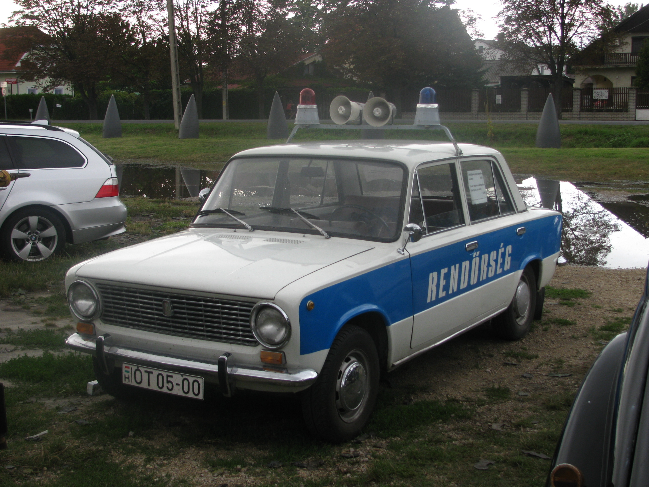 A police car in Zamárdi, Hungary. VAZ-2101 (Lada 1200).